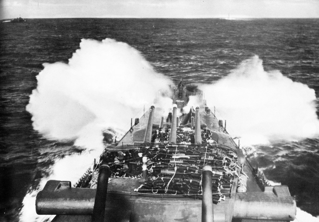 View forward from the U.S. Navy light cruiser USS Biloxi (CL-80).